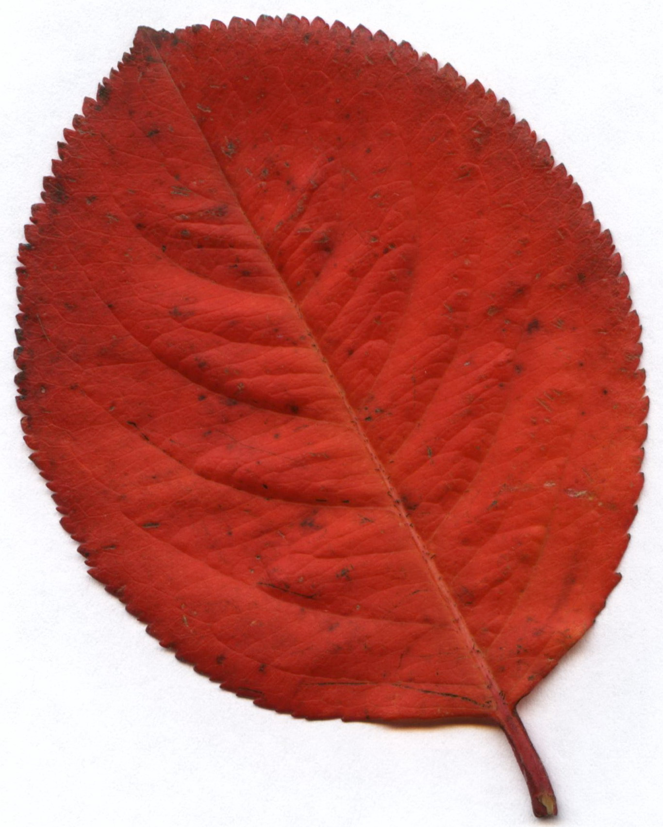 Aronia melanocarpa. Leaf, fall colour. Scanned.